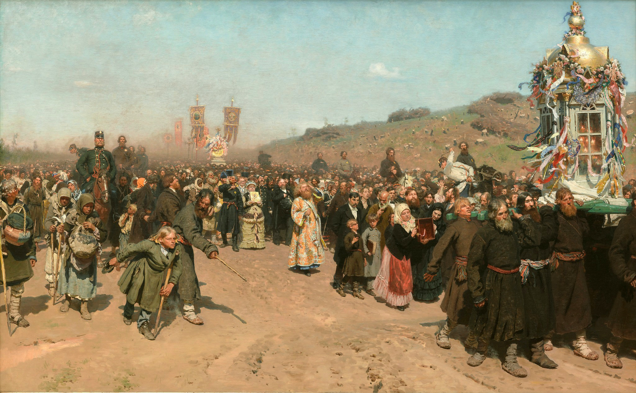 Easter Procession in the Region of Kursk